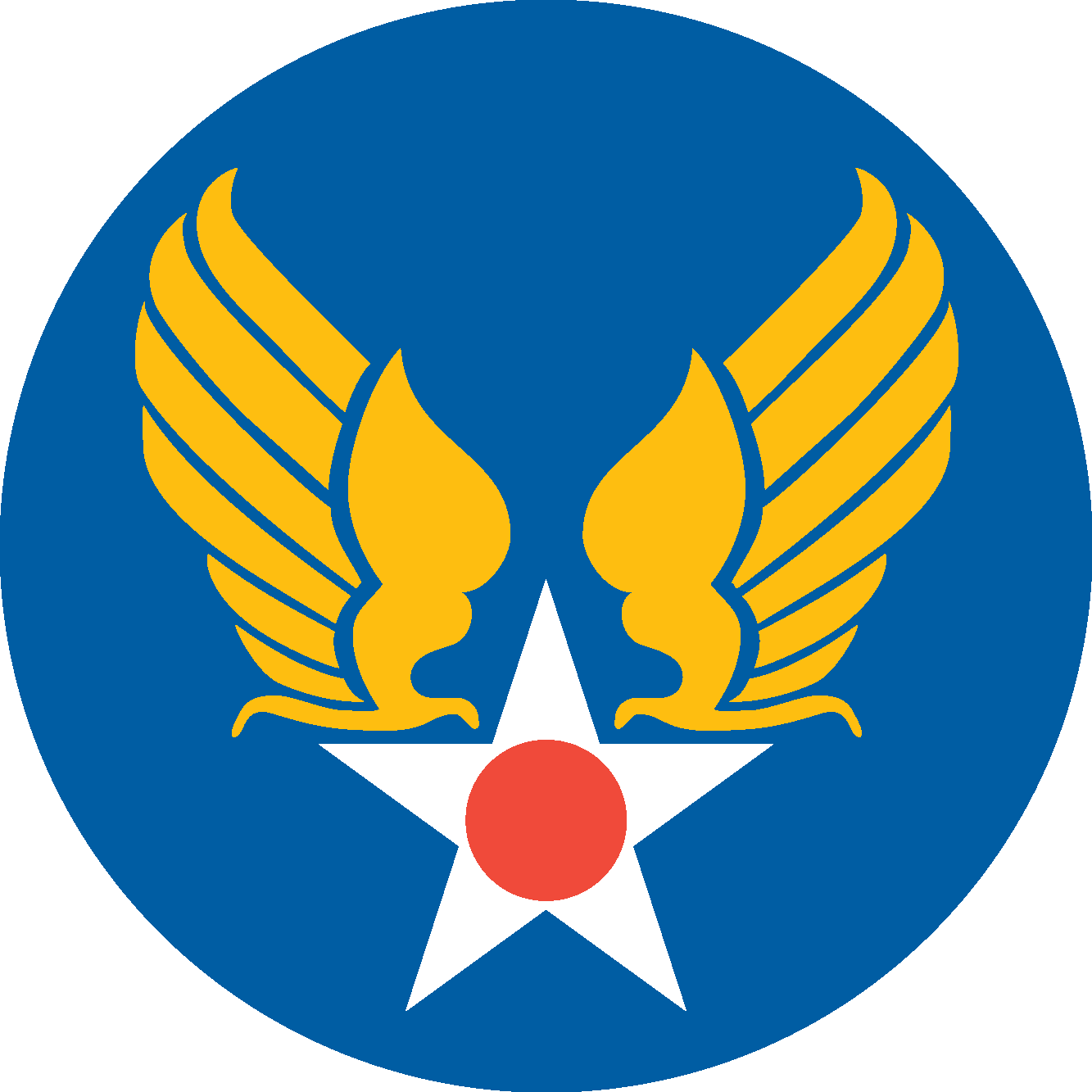 Emblem (Shoulder Sleeve Insigne) used by the United States Army Air Forces before it was created as its own military service, the United States Air Force, in 1947